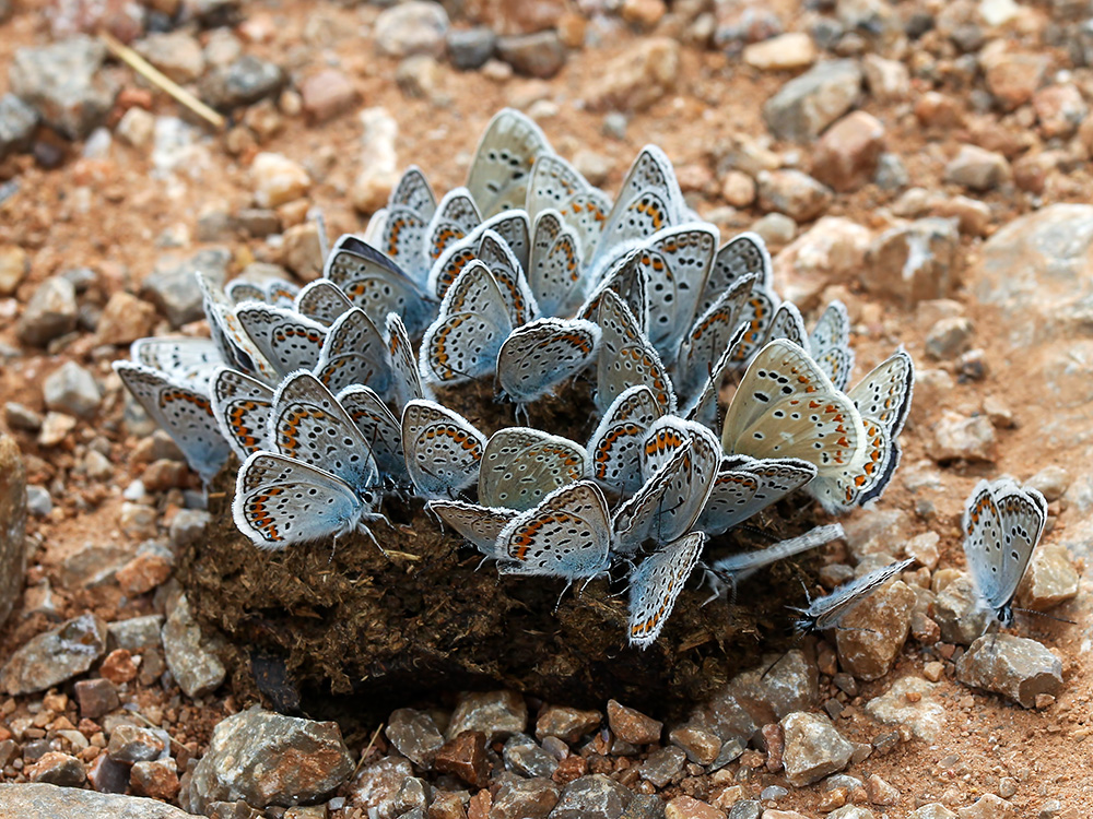 Plebejus argus, Polyommatus icarus, and Polyommatus dorylas - Ohrid, Macedonia, 09/08/2016